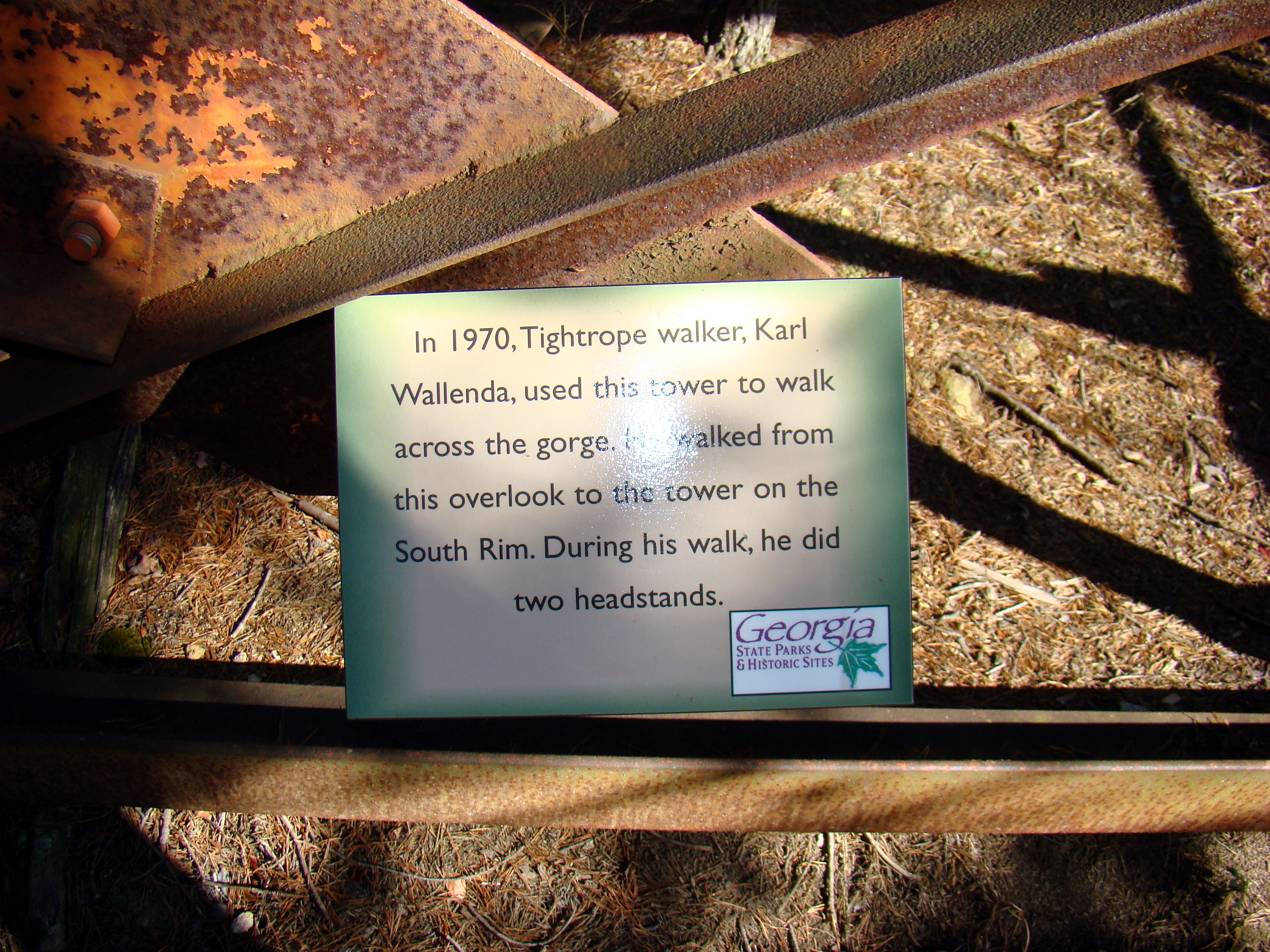 Site marker at the remains of metal tower that daredevil Karl Wallenda used to tightrope walk across Tallulah Gorge in 1970. The site is located in Tallulah Gorge State Park on the North Rim of the gorge.